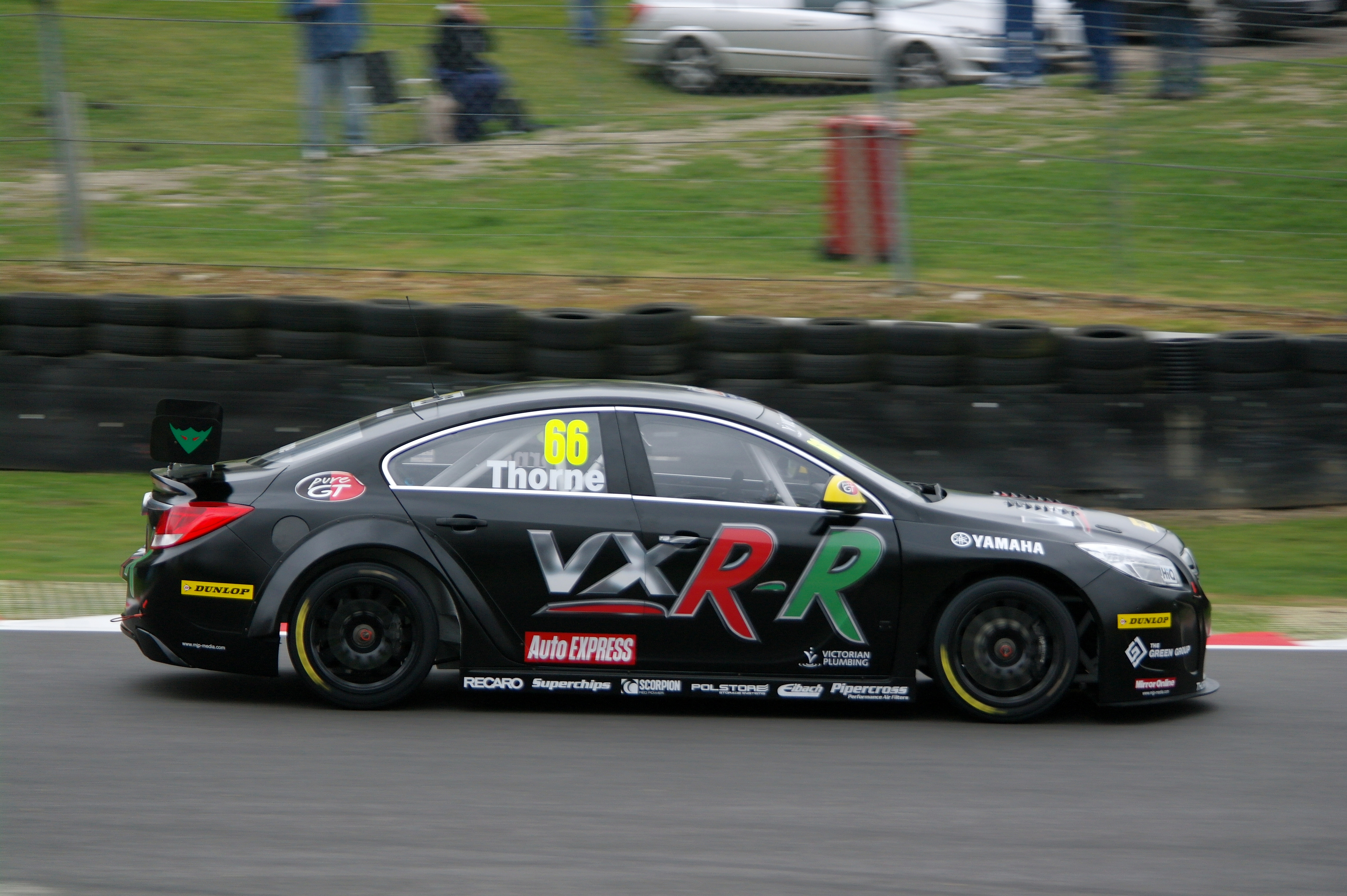 John Thorne driving in First Practice at Brands Hatch for the opening round of the 2012 British Touring Car Championship.